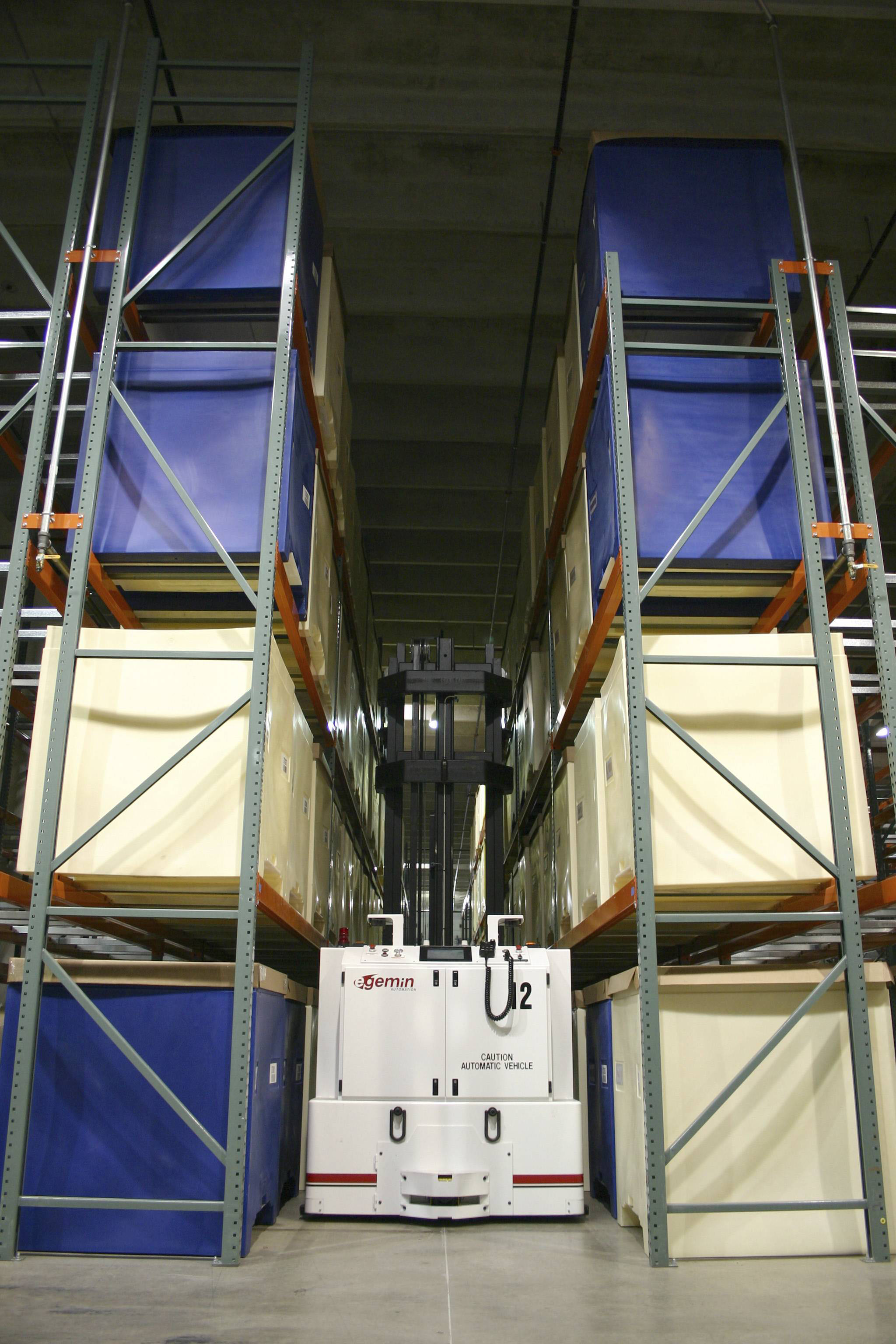 VNA AGV can travel through aisle with very little side clearance safely.